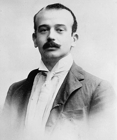 Grand Duke Boris Vladimirovich of Russia in civilian clothes